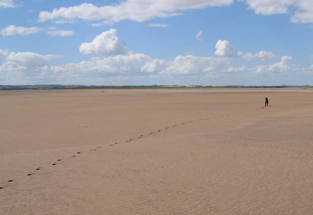 Big Beach, Big Sky. Looking WSW towards Goswick